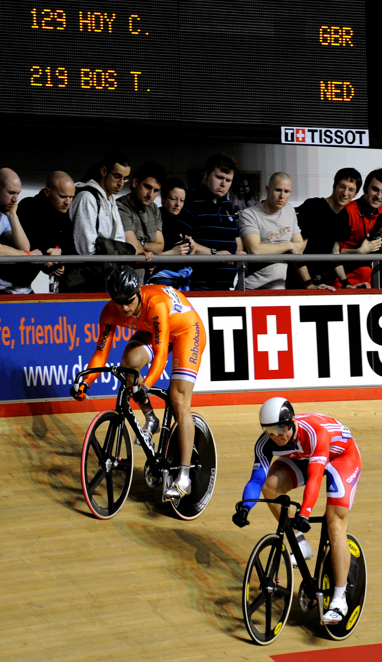 World Track Championships 2008 Manchester Velodrome - Chris Hoy v Theo Bos